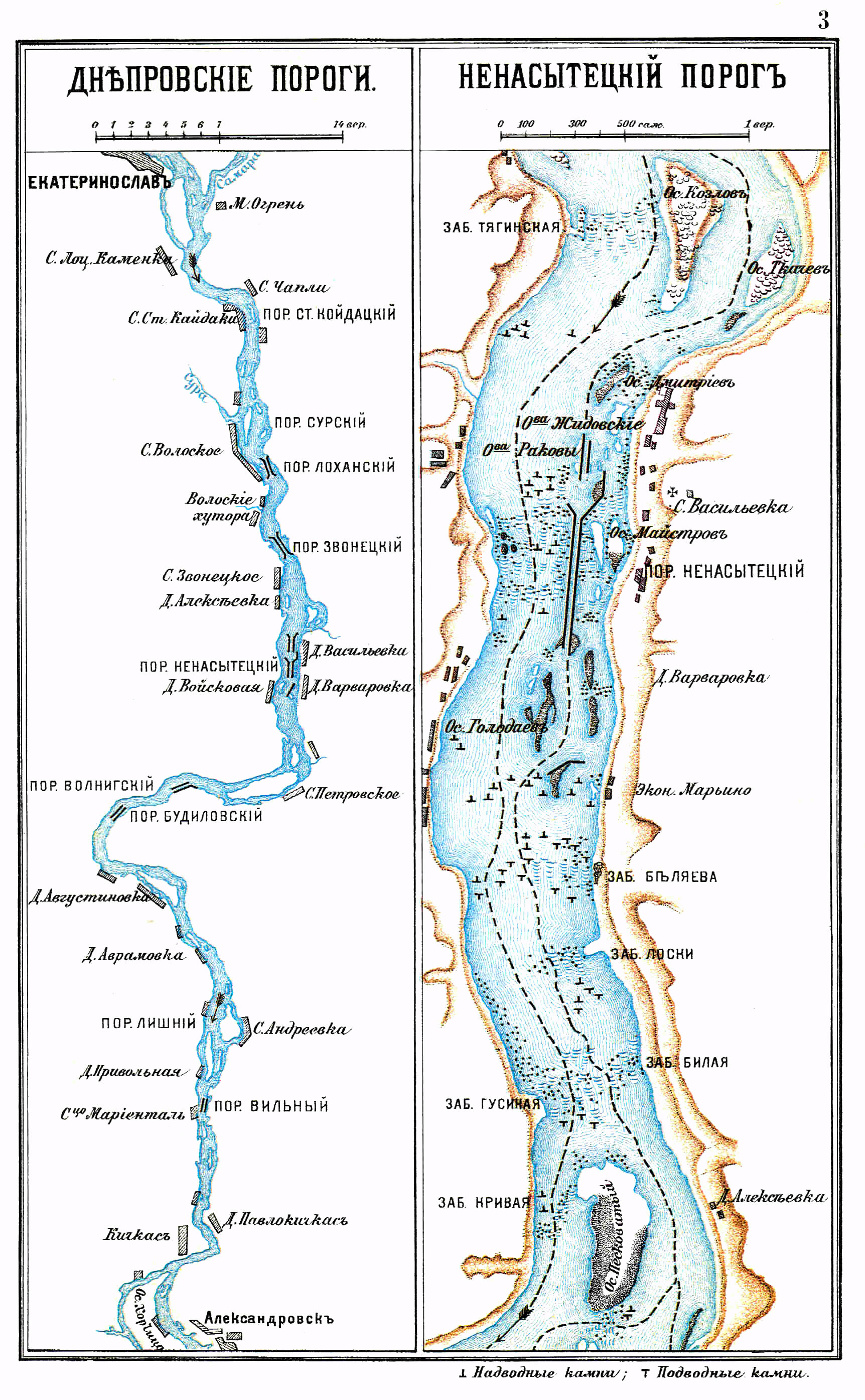 Illustration from Brockhaus and Efron Encyclopedic Dictionary (1890—1907)